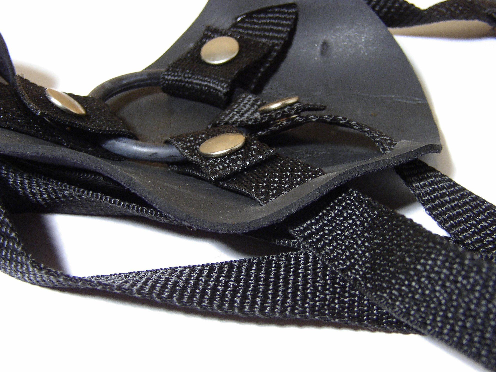 I took this photo myself, of my strap-on harness, cleaned up the image myself with GIMP, and release it under the GFDL license.